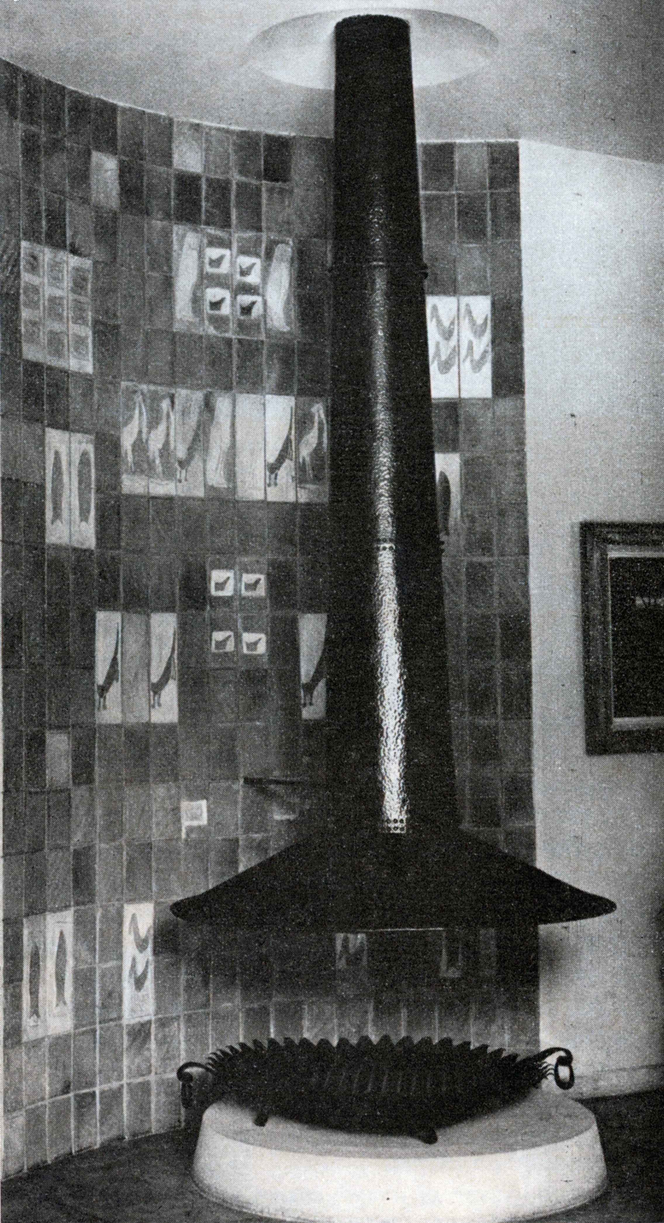 Relief by Rudolf (Rudi) Lehmann, Beit Elin, The Carmel.